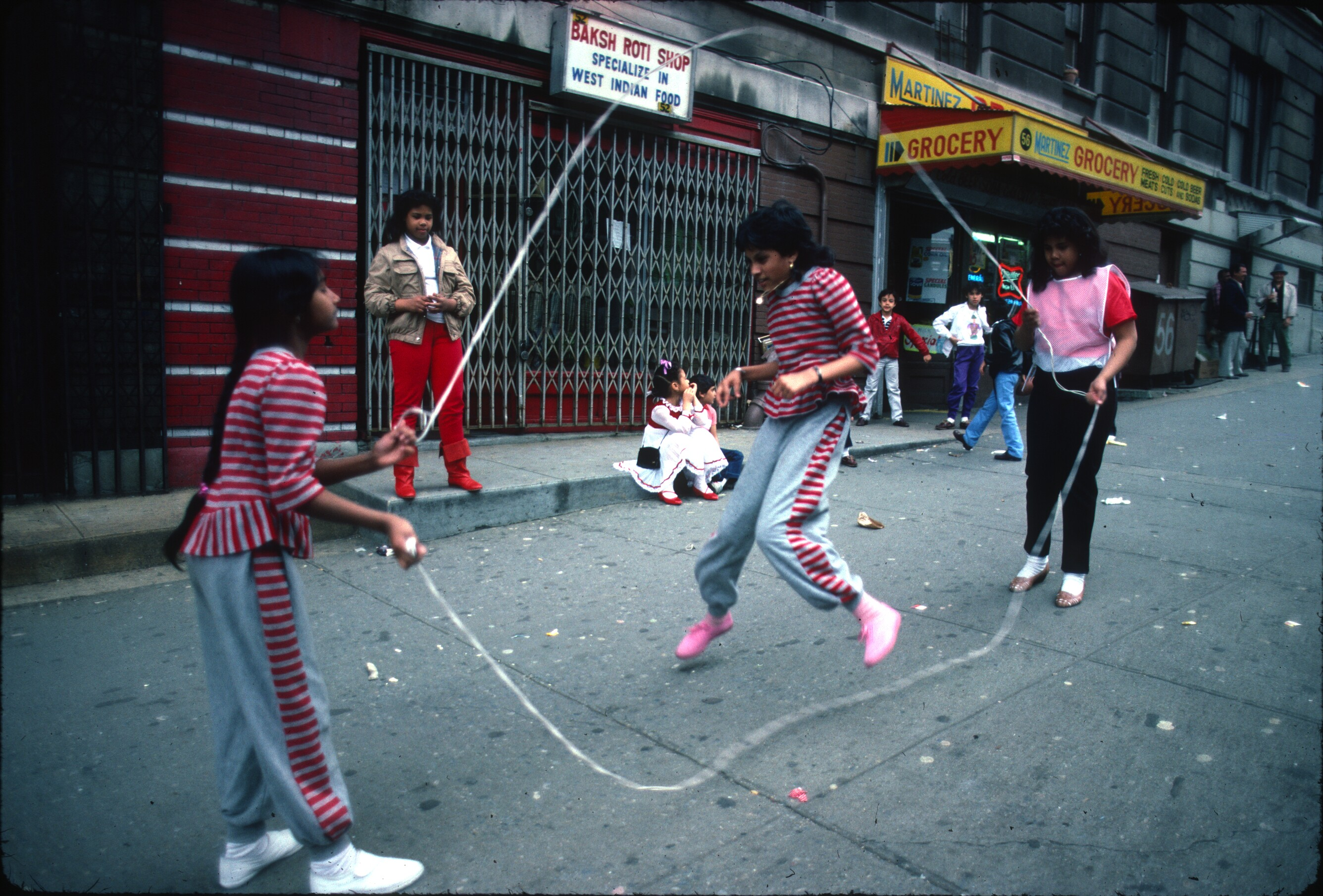 Images collected for City Play